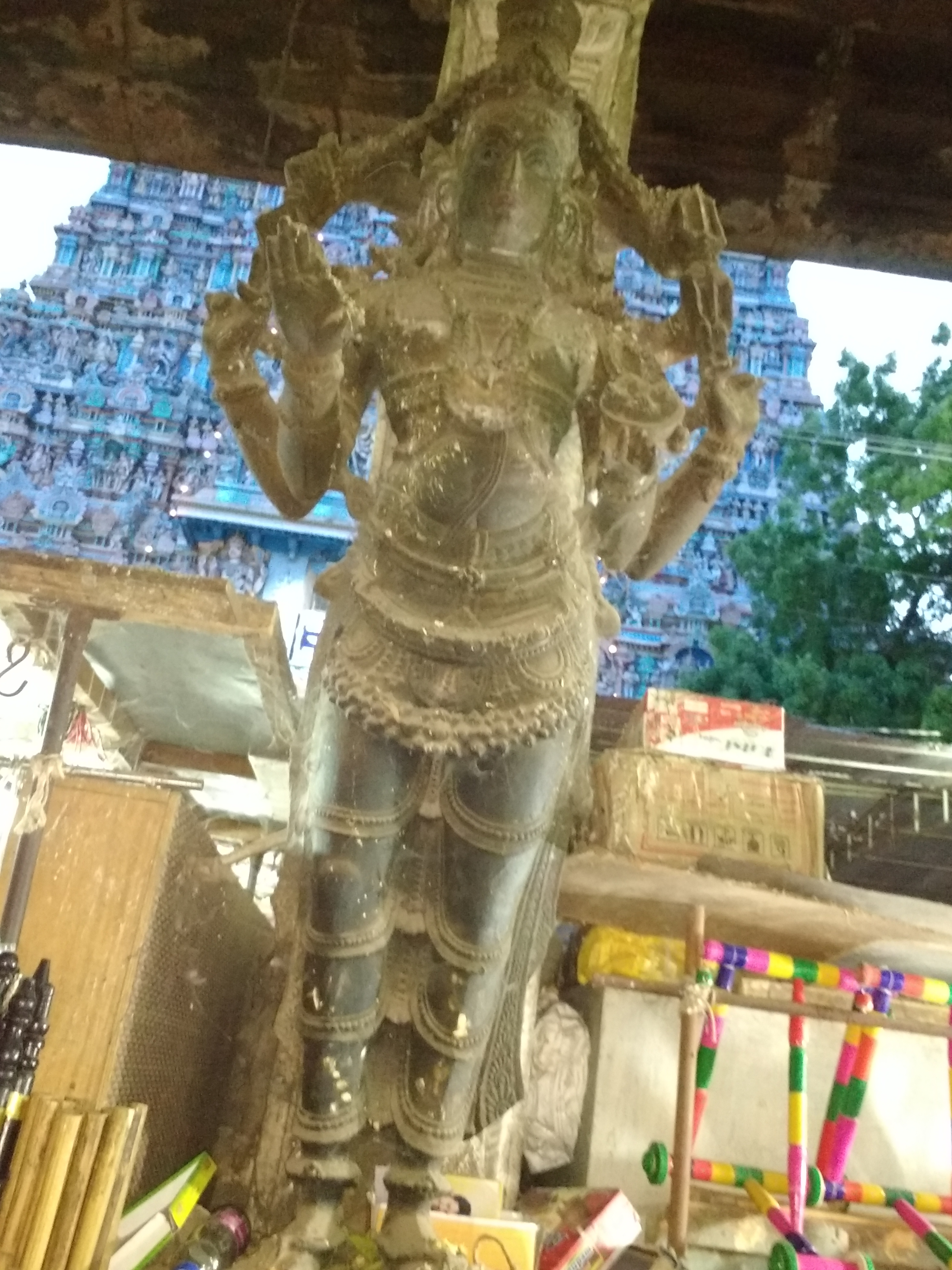 Shiva and Vishnu in one body